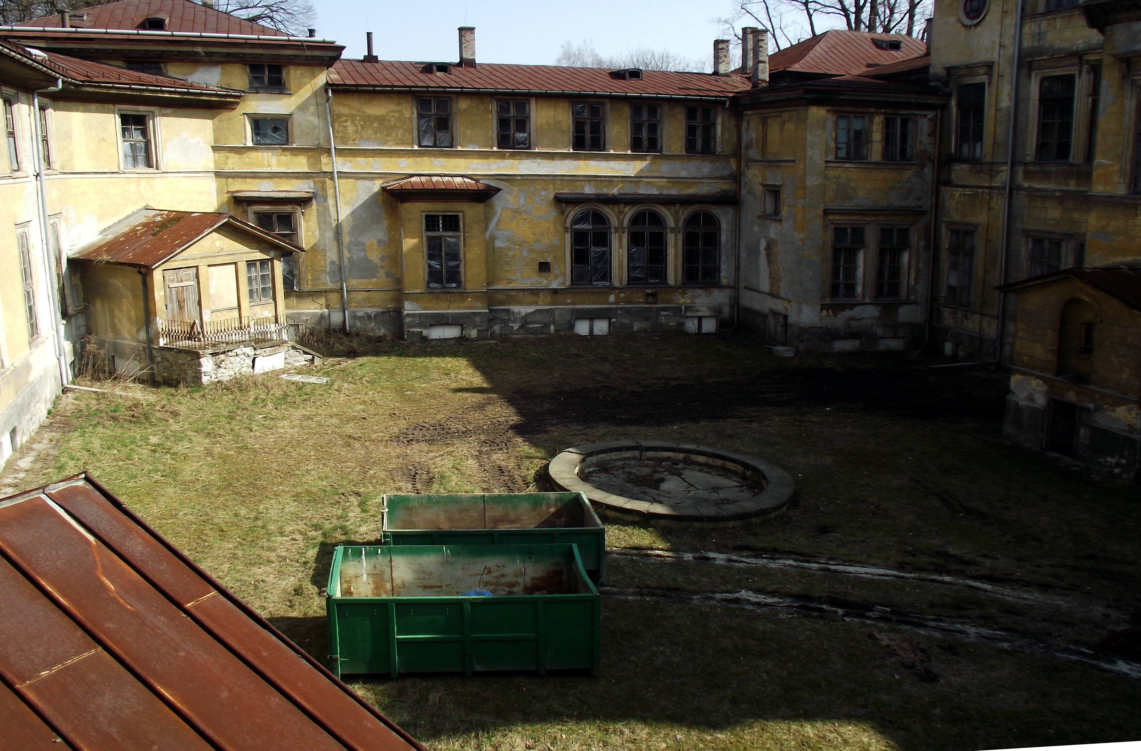 Courtyard of the Potocki Palace in Krzeszowice, Poland.